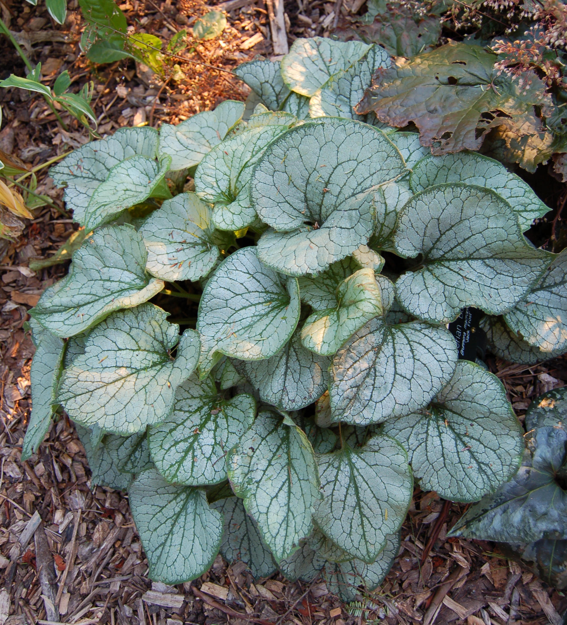 Photograph of the Siberian Bugloss (Brunnera macrophylla 'Jack Frost'). Photo taken at the Tyler Arboretum where it was identified.